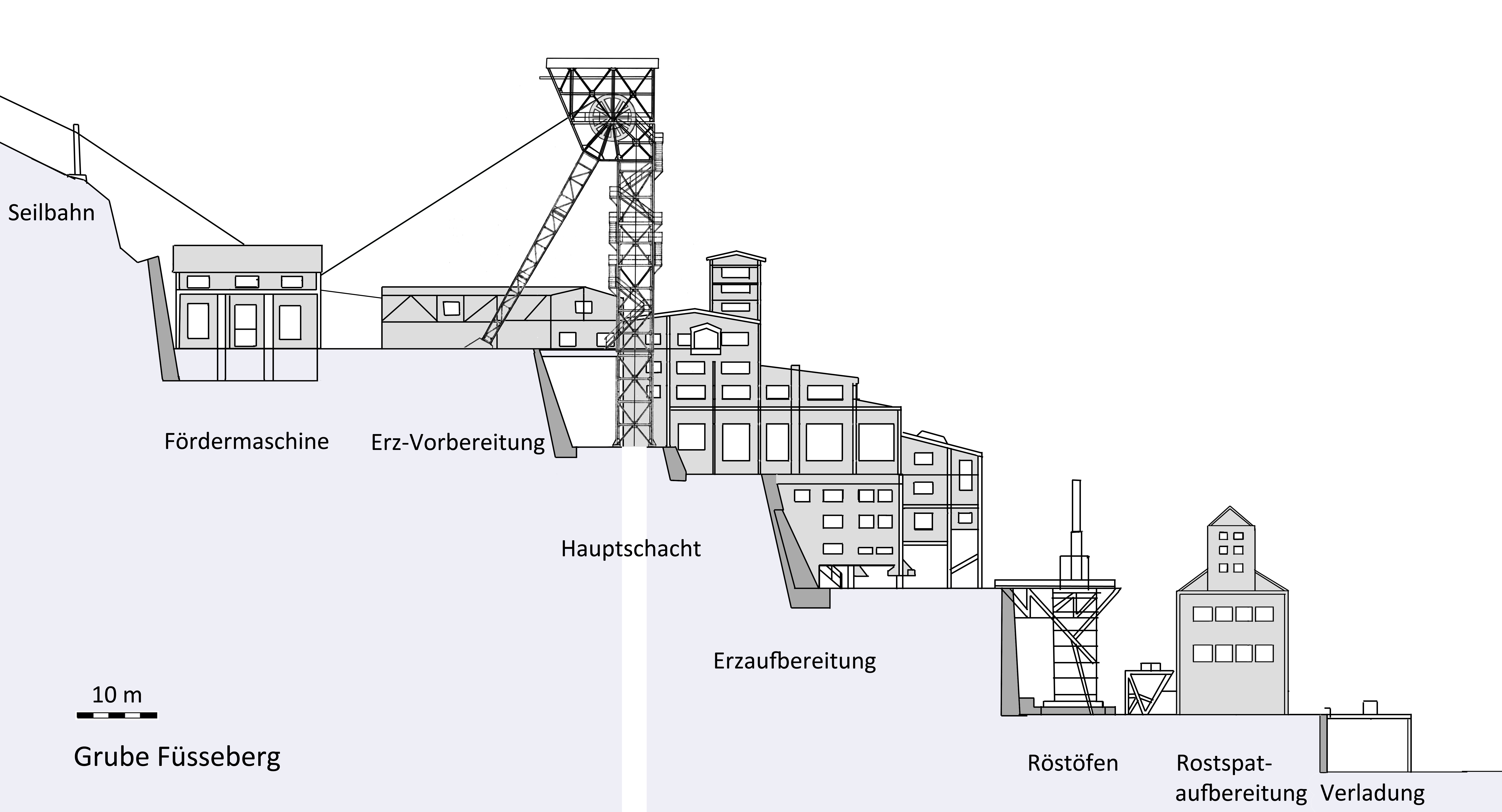 Füsseberg mine. View to the east. Ore dressing and processing units. Note: Not included are the administrative and storage buildings to the right.